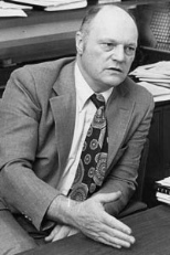 Norman Carl Rasmussen